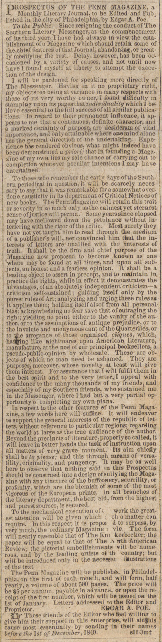 Edgar Allan Poe's "prospectus" for the Penn magazine, as advertised in Philadelphia's Chronicle and General Advertiser (Vol. 1, No. 144, October 16, 1840) Available in Cornell Univ. archives